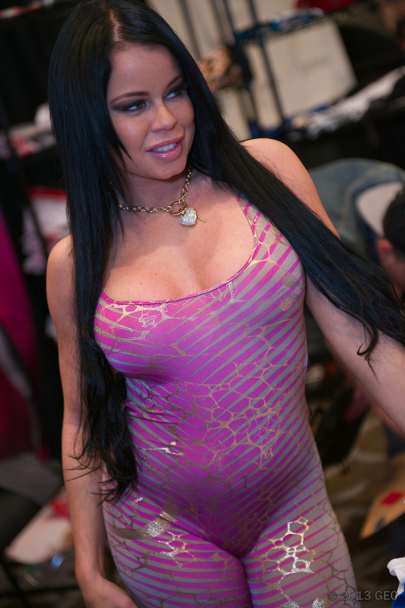 2013 AVN Adult Entertainment Expo AEE at Hard Rock Hotel - Las Vegas. 2013 © GEC.